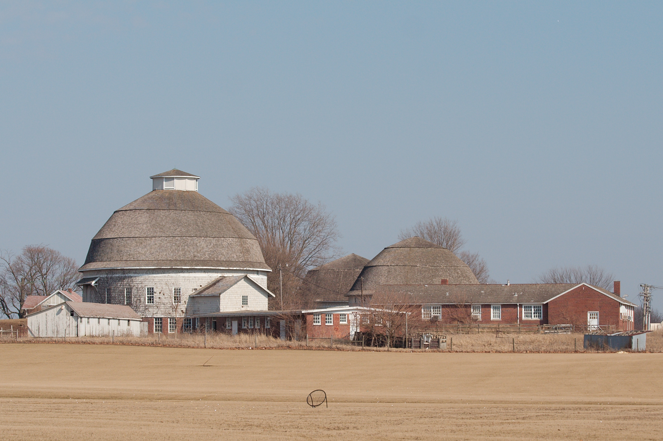 University of Illinois Experimental Dairy Farm Historic District, showing cow shed, and Barn #3 (built in 1912), Urbana, IL